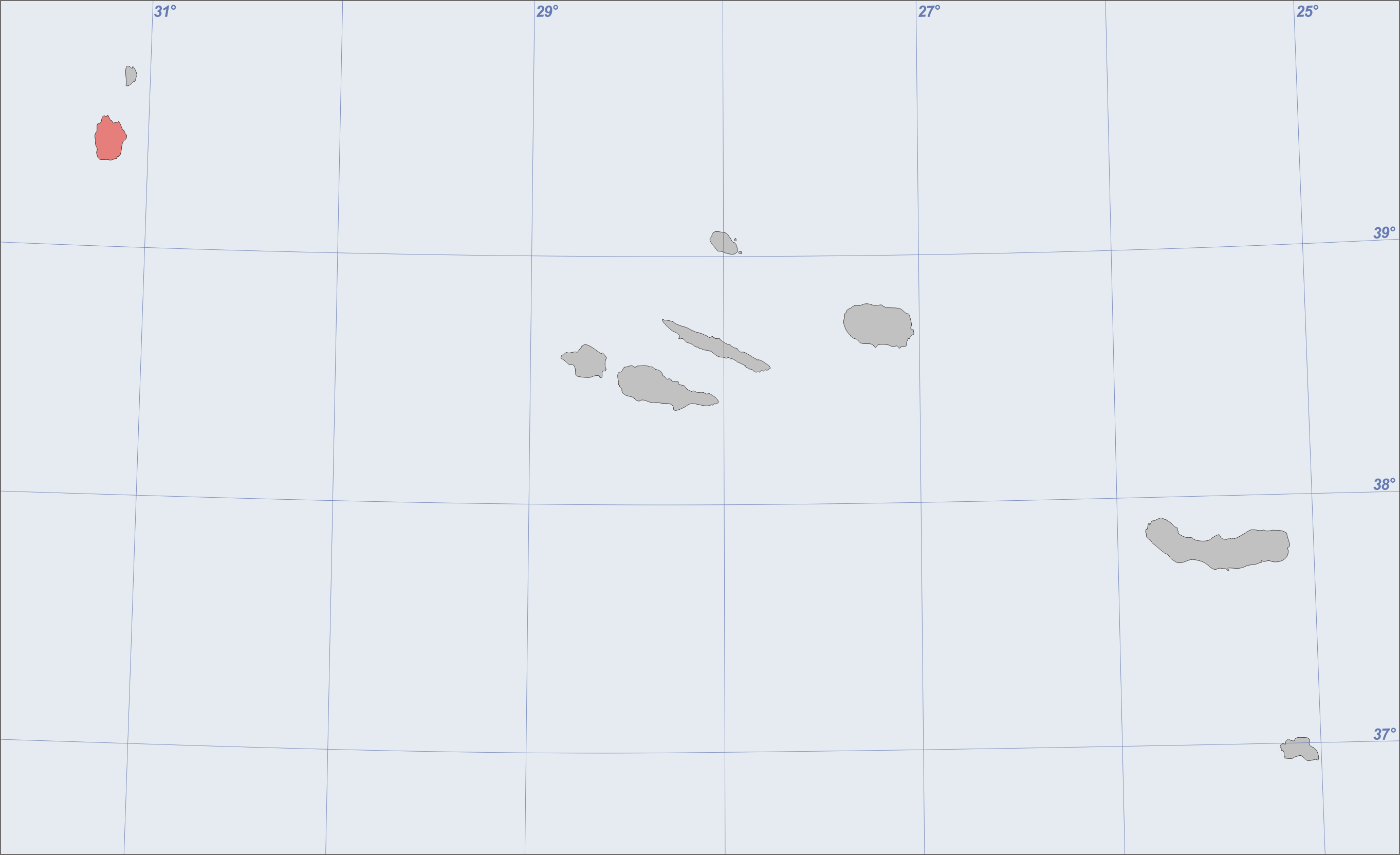 Position of Flores Island, Azores drawn by varp